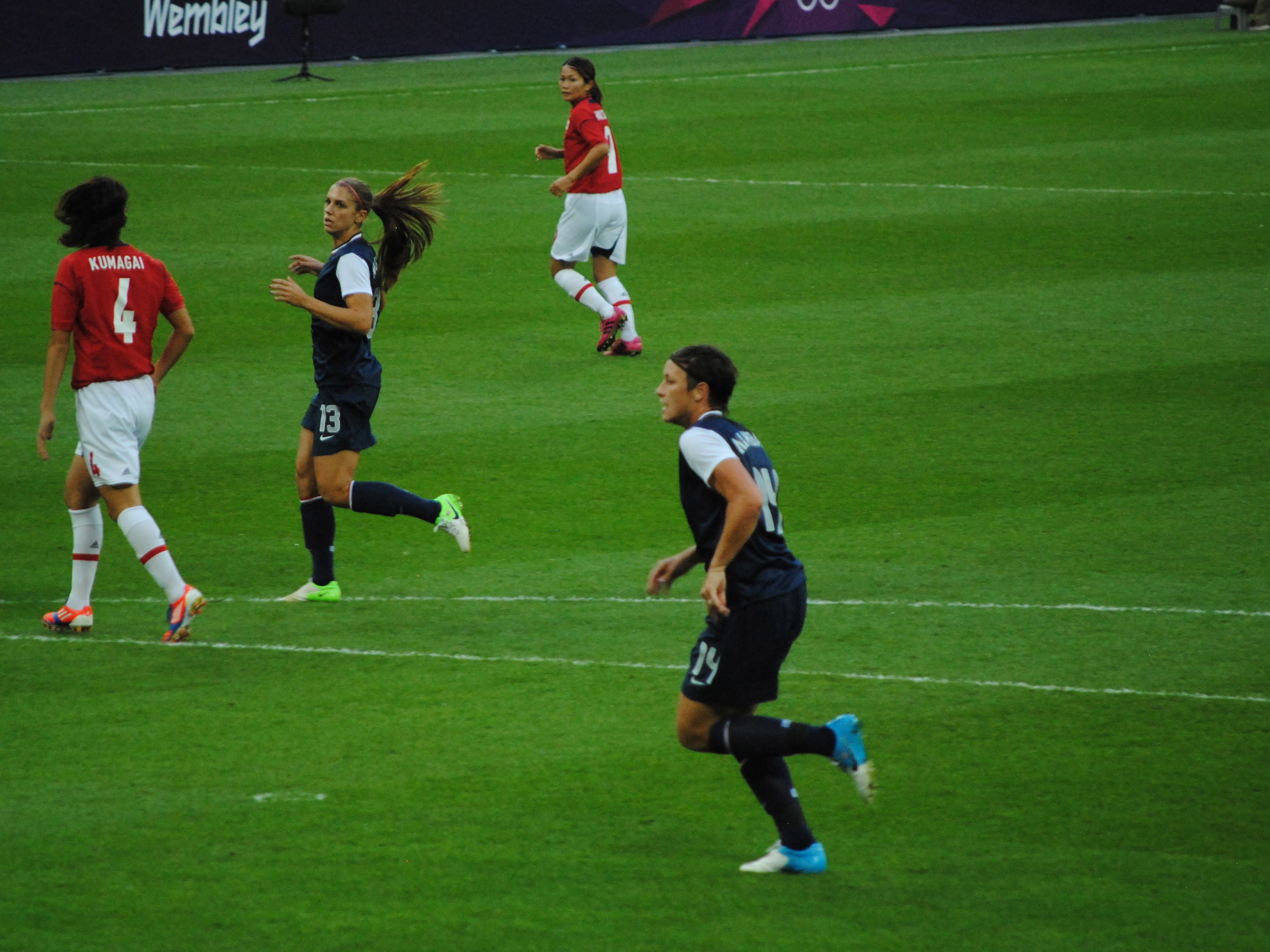 USA vs Japan in 2012 women's soccer Olympic final at Wembley Stadium